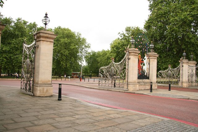 Queen Elizabeth Gates Gates at the south-eastern entrance to Hyde Park commemorating the Queen Mother were opened by the Queen in 1993. The central screen is by David Wynne and the gates of patinated stainless steel were designed by Giuseppe Lund.